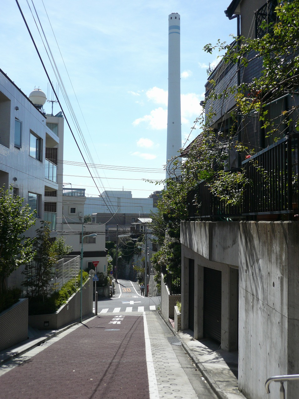 Chaya-zaka Slope, Meguro-ku, Tokyo, Japan